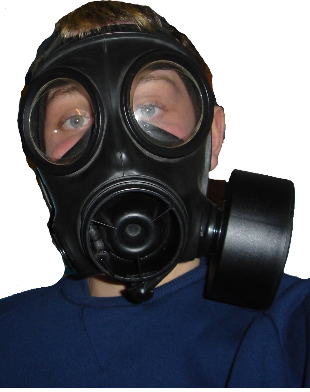 S10 Gas Mask Respirator Avon